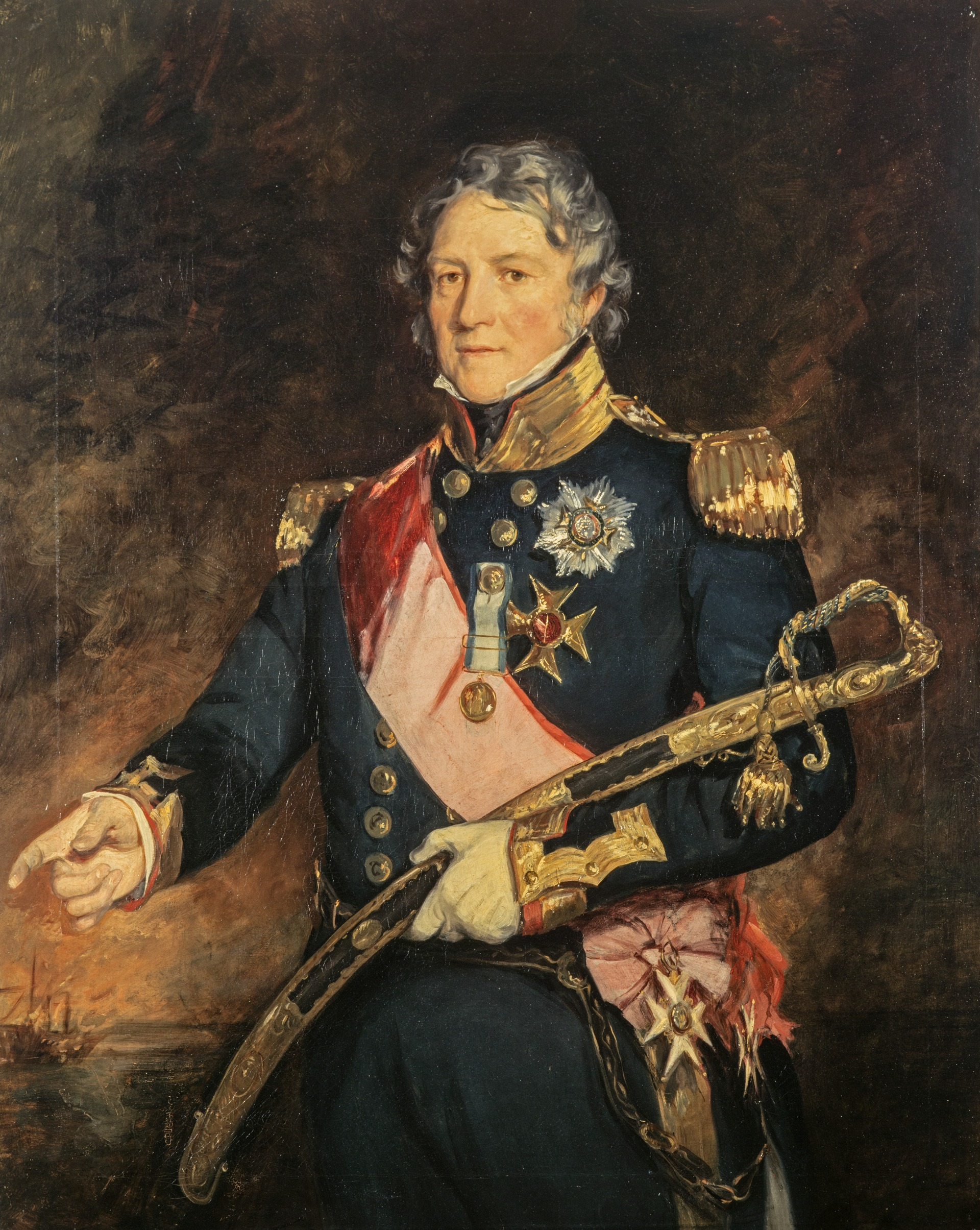 Admiral Sir Philip Charles Henderson Calderwood Durham, by Sir Francis Grant about 1830. Oil on canvas.